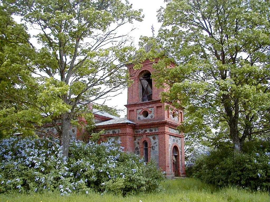 Ķūļciems Orthodox church